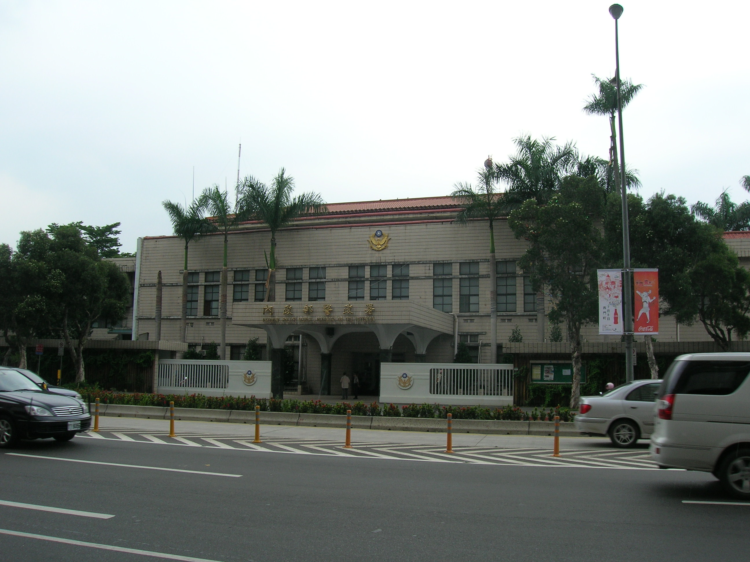 National Police Agency, Republic of China (Taiwan).